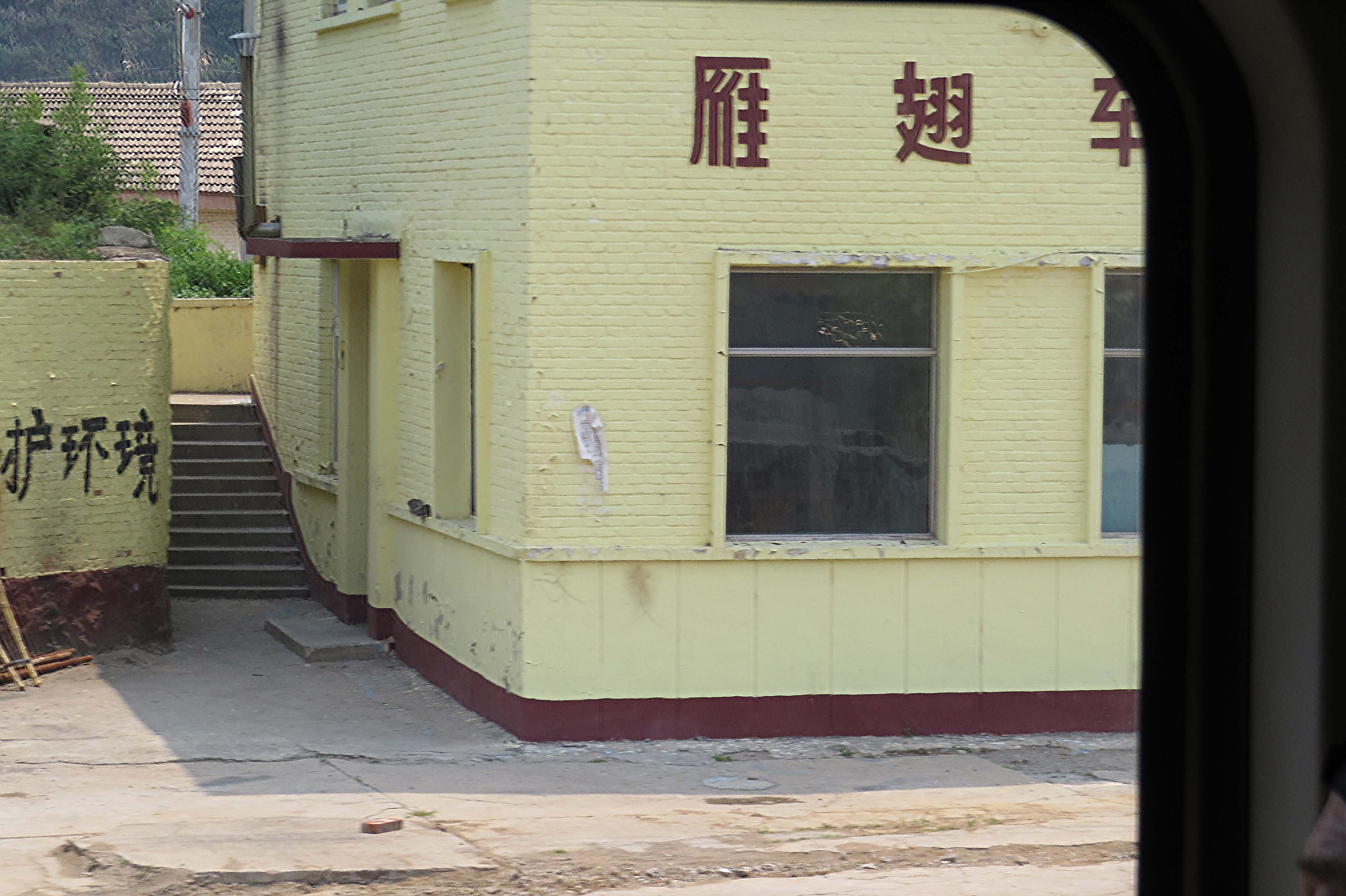 Not that remote now.